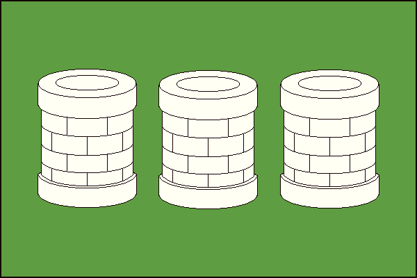 Municipal flag of Tři Studně ("Three Wells") village, Žďár nad Sázavou District, Czech Republic.